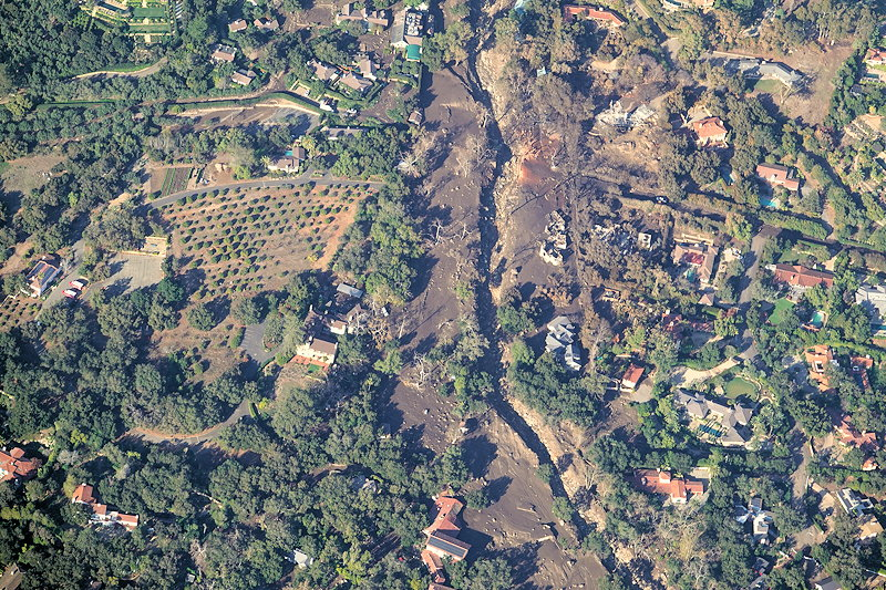 Aerial: San Ysidro Ranch and Casa de Maria damage taken January 11, 2018 of the catastrophic debris flow from heavy rains after the Thomas Fire. This is one of hundreds of aerial photos I took of this regional disaster, both the fire and debris flow. For a comparison of this area before the disaster(s), you may find an archived satellite photo of these coordinates: 34.444964, -119.622550